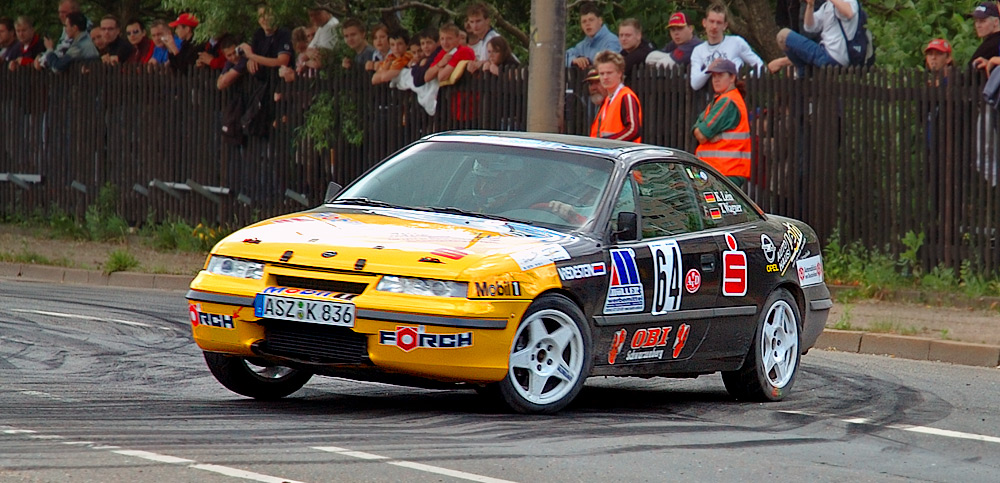 This image shows a Opel Calibra 4x4 Turbo. The driver is Karsten Lein, the co-driver is Thomas Wagner. This photo has been taken during the Saxony rally racing 2005 in Zwickau (Germany).